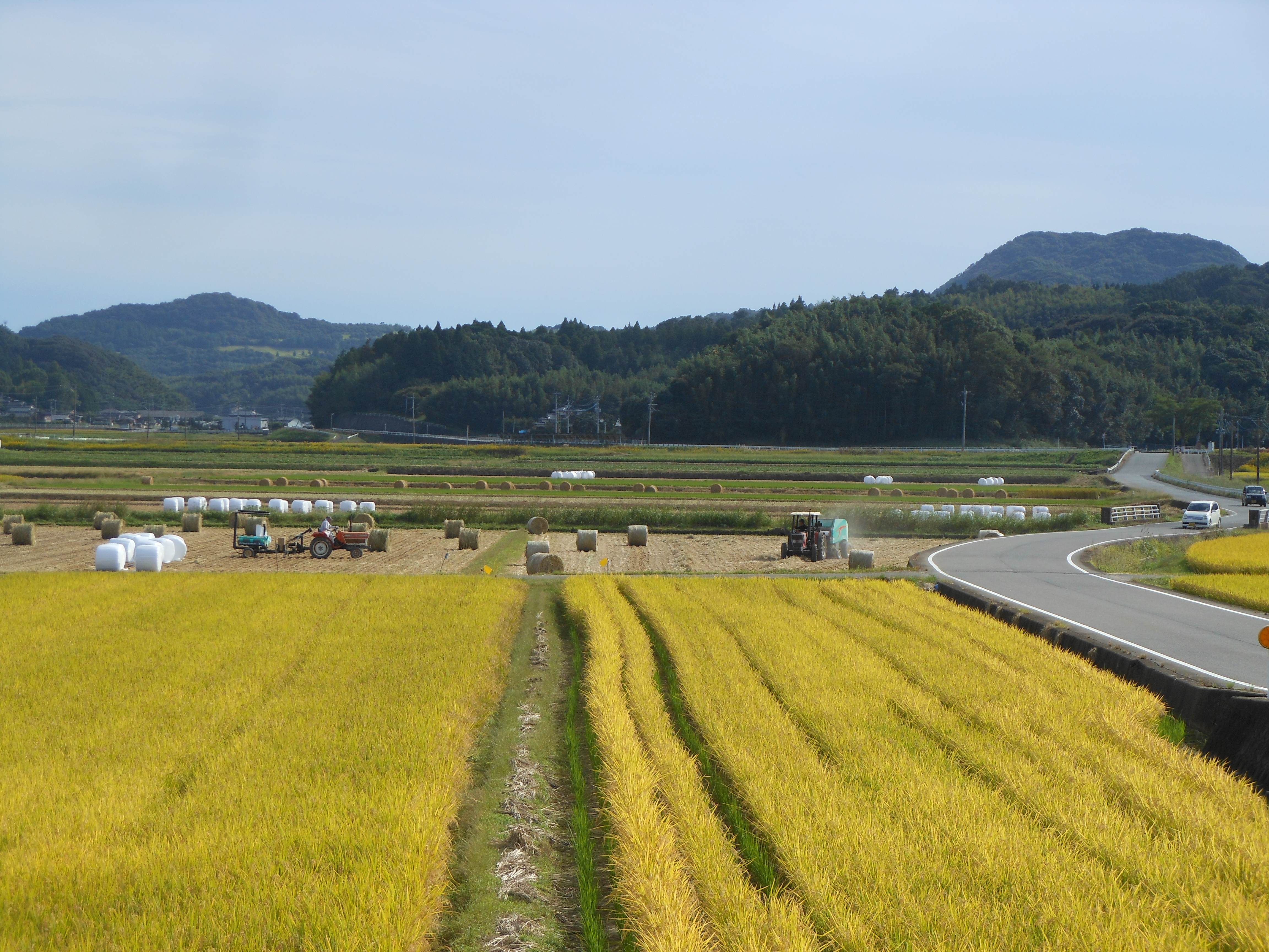 The work of rice straw baling, on rice field in Minamitaku, Taku city, Saga prefecture.